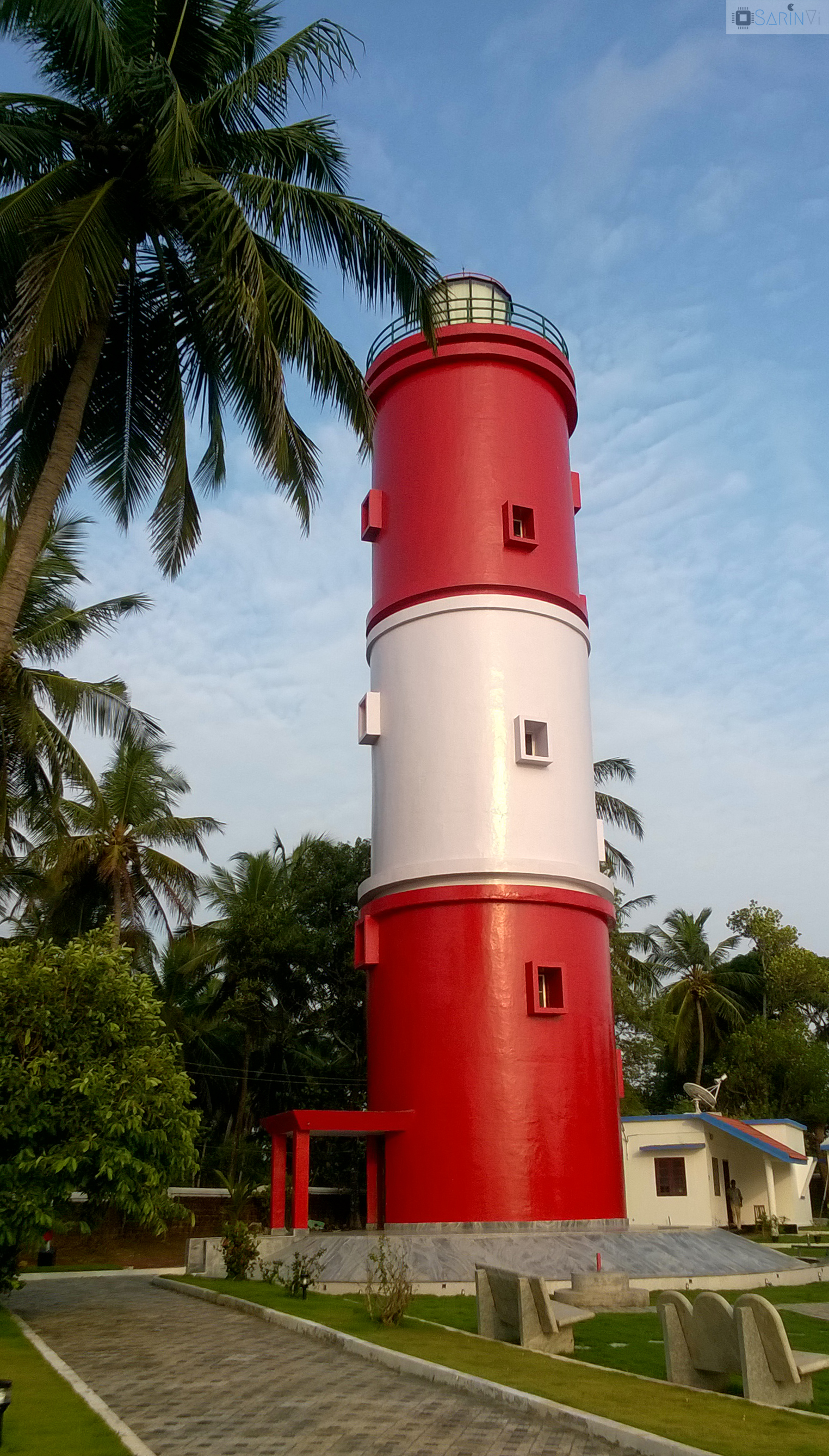 This picture was taken in summer 2015.